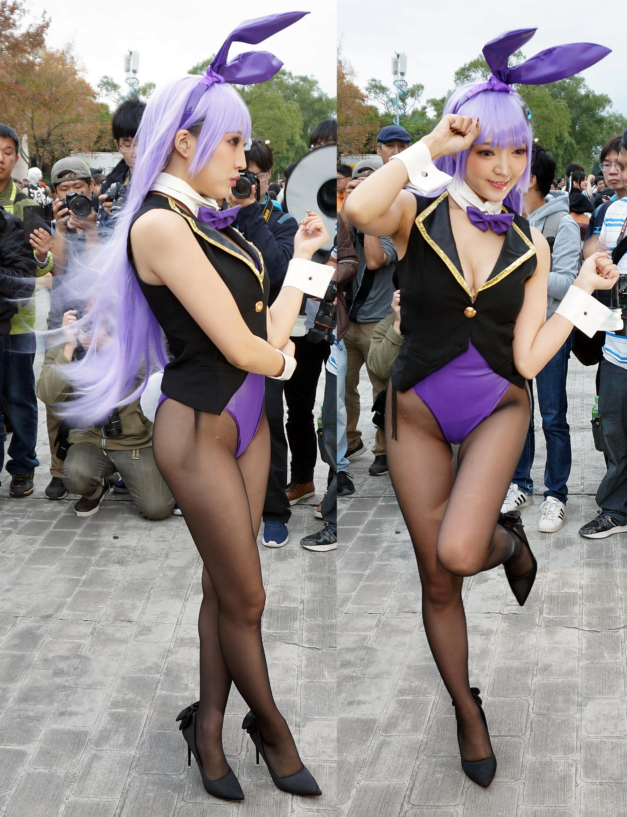 Collage of Shuna Ishioka as Bunny Miku Izayoi cosplay, in the 53rd Comic World Taiwan.